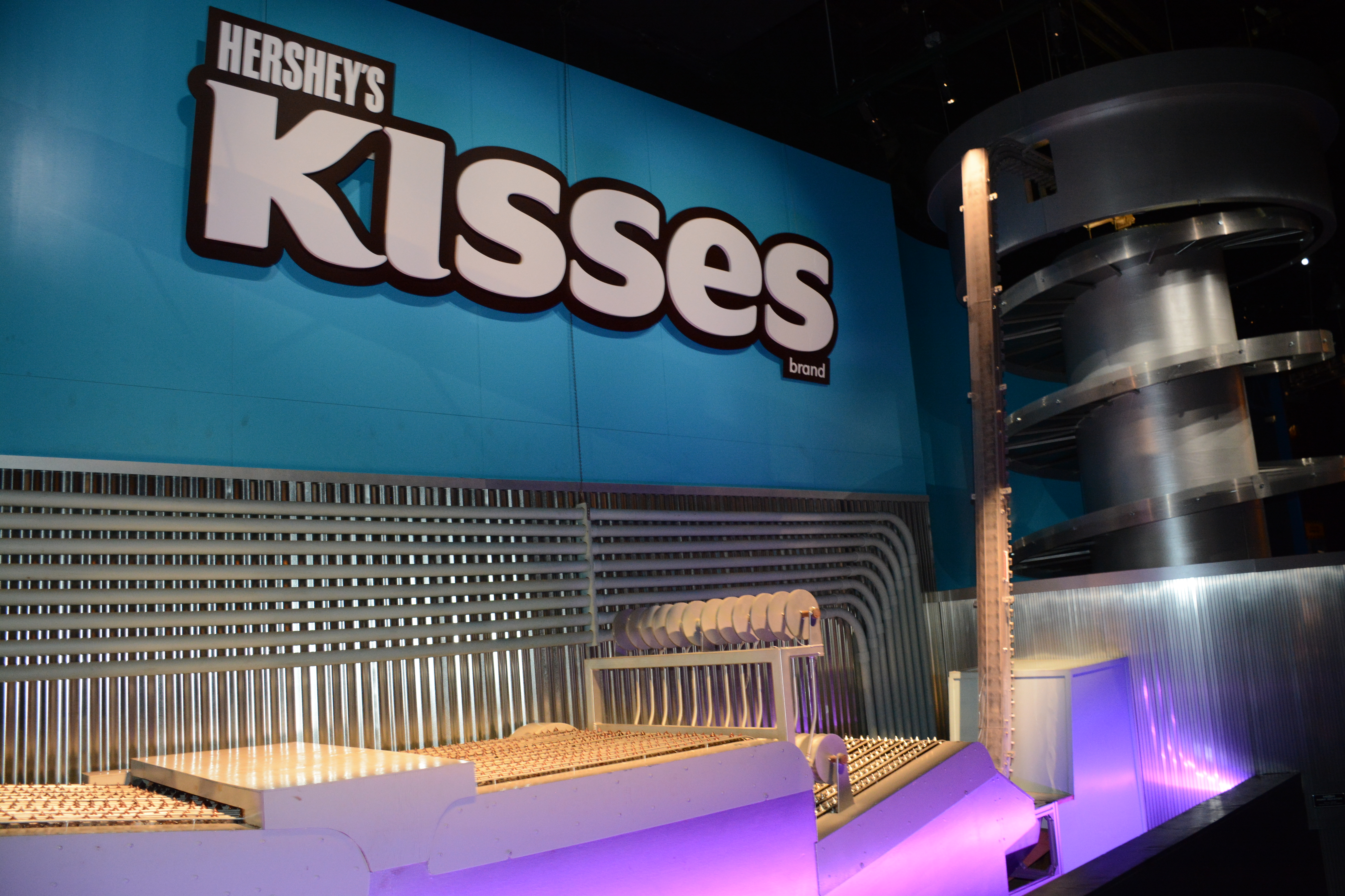 Hershey kisses